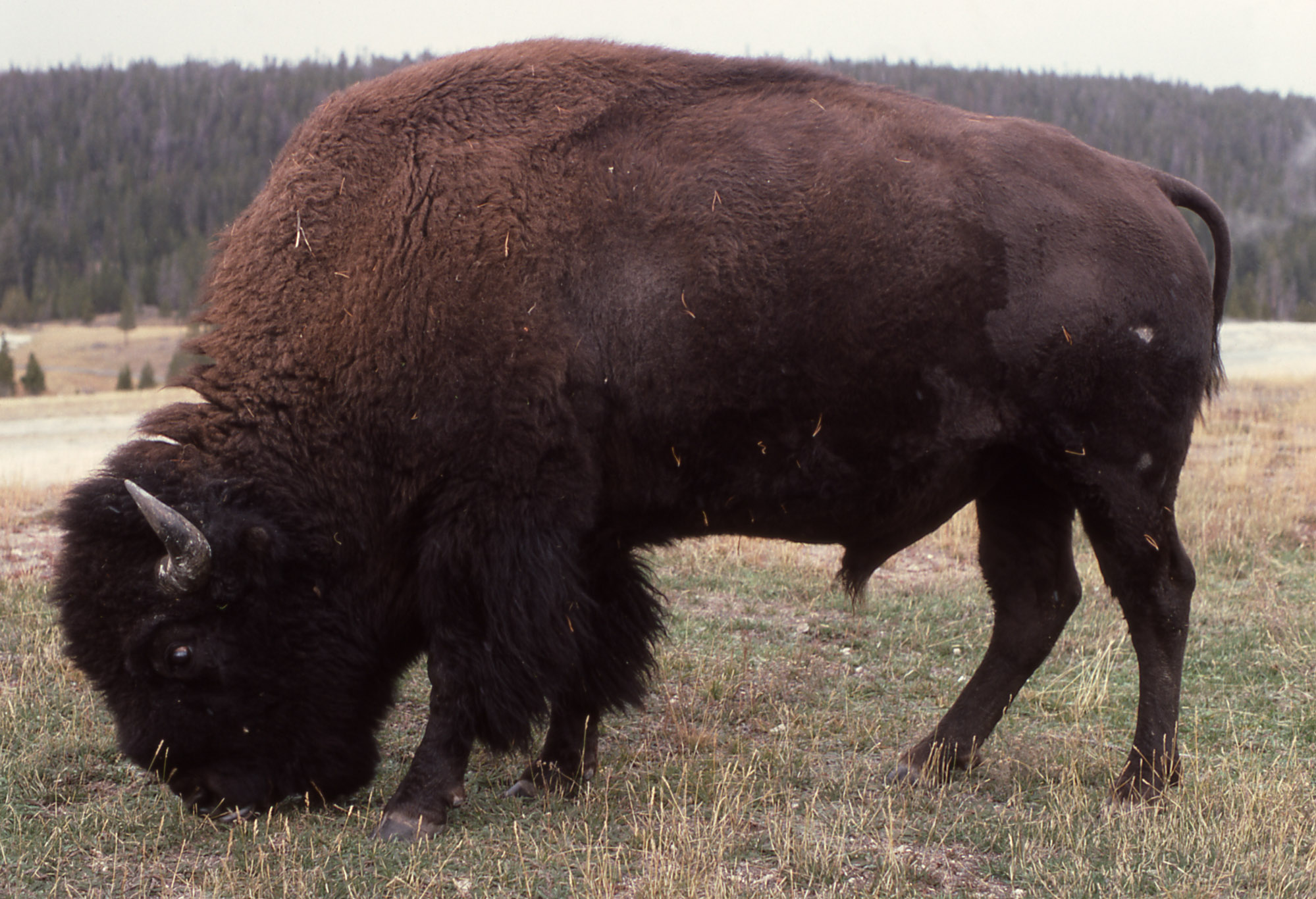 Close up of bison grazing